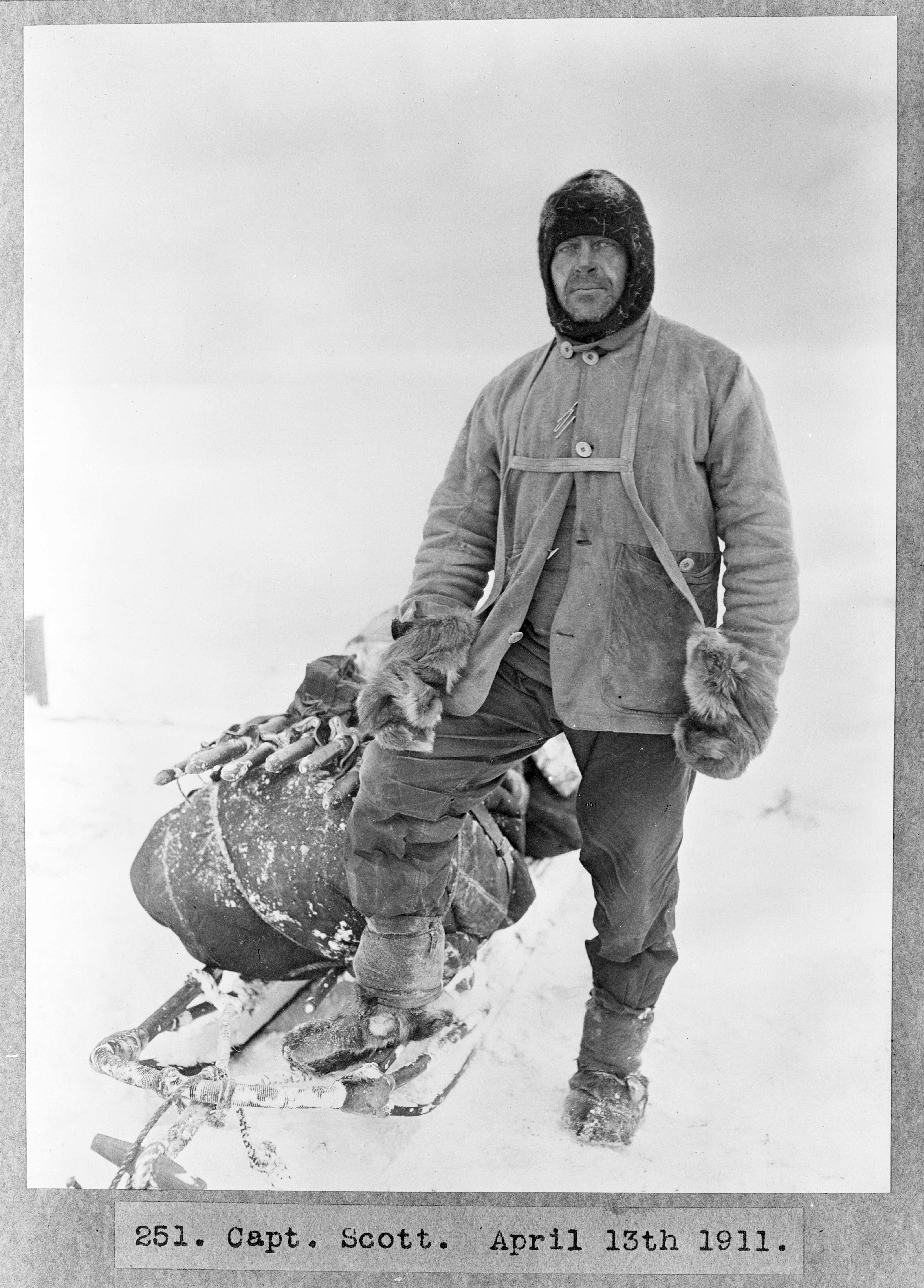 Captain Robert Falcon Scott, leader of the Terra-Nova-Expedition (1911-1913), in polar gear